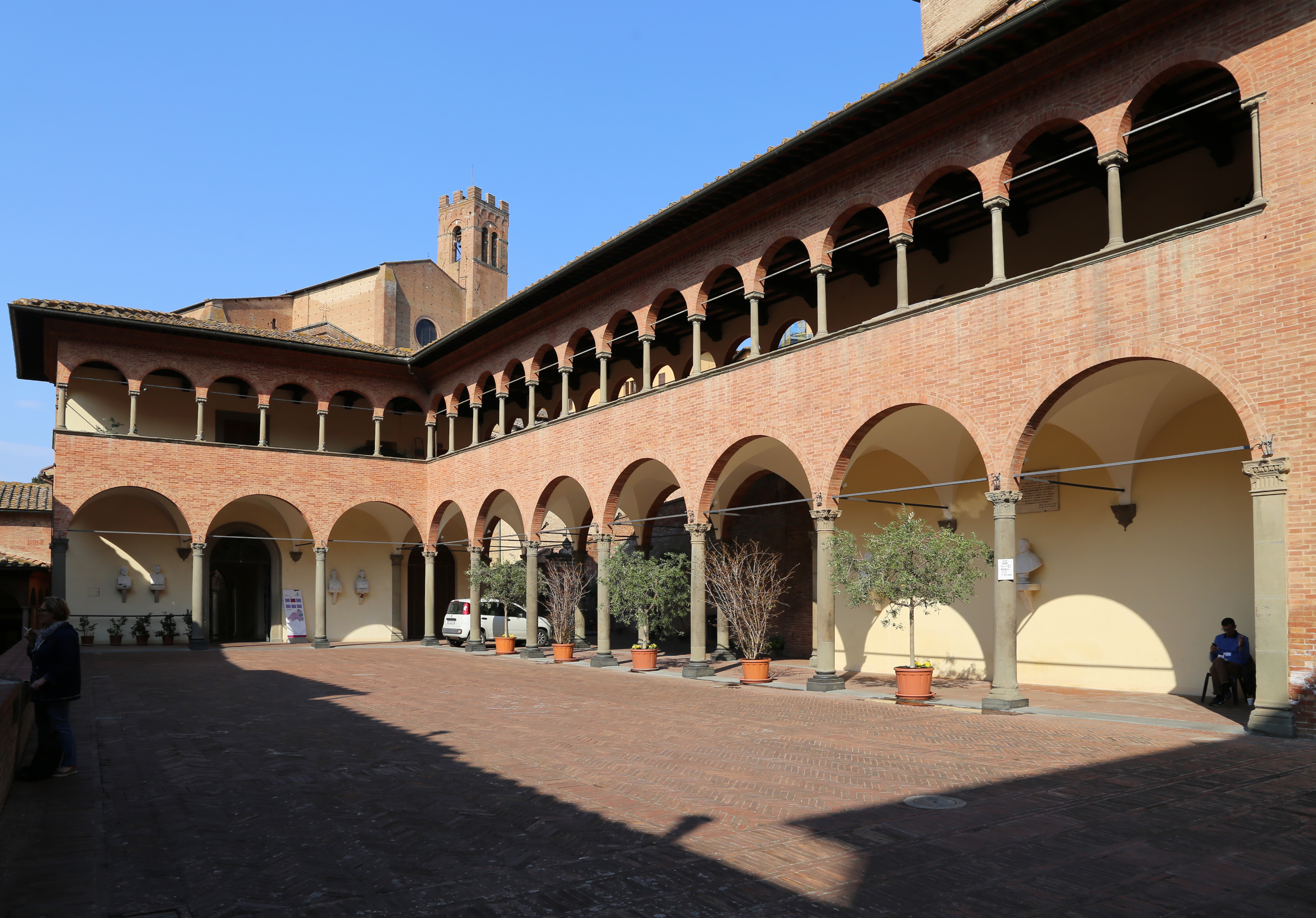 House of Saint Catherine of Siena